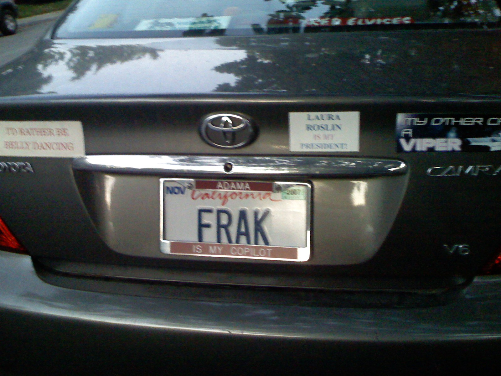 a vanity plate of the fictional expletive Frak.